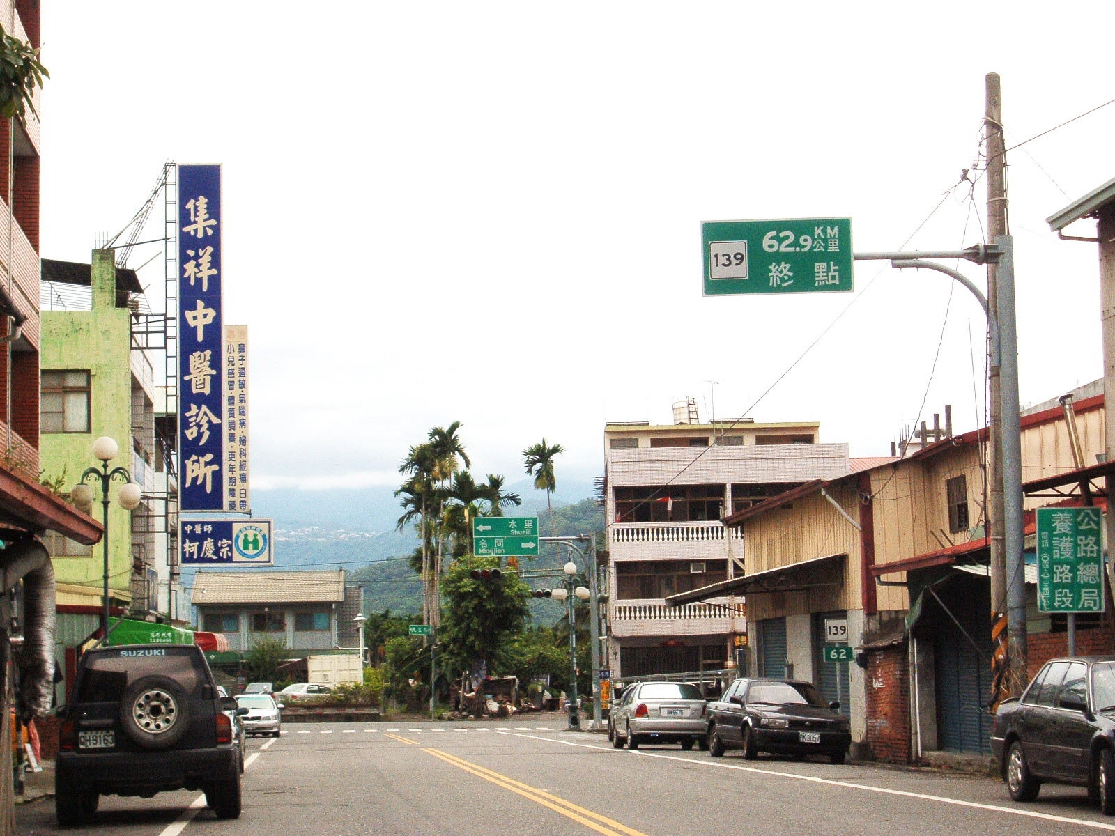 End of County Highway No.139 is non-change before,near Minsheng Road.Its located at downtown Ji-Ji in Nantou County.Looking across the hamlet of Rui-Tian on the hill,it is located in Lugu Township.